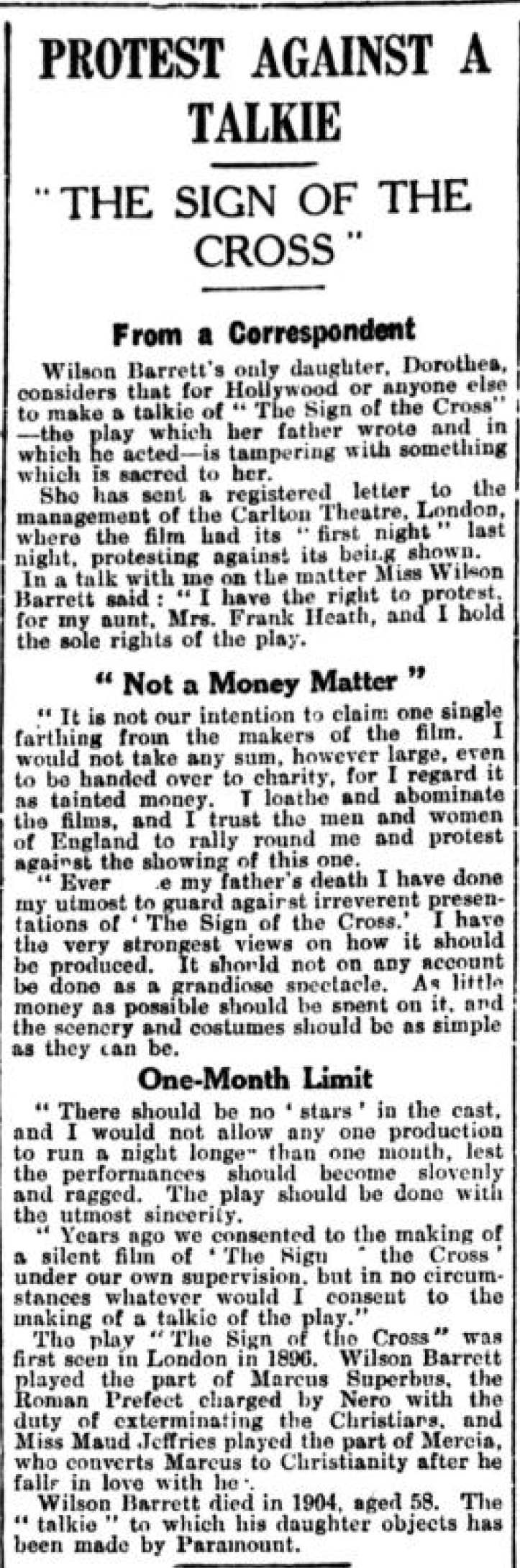 A press report detailing the concerns of Dorothea Barrett relating to a "Talkie" version of her father's play